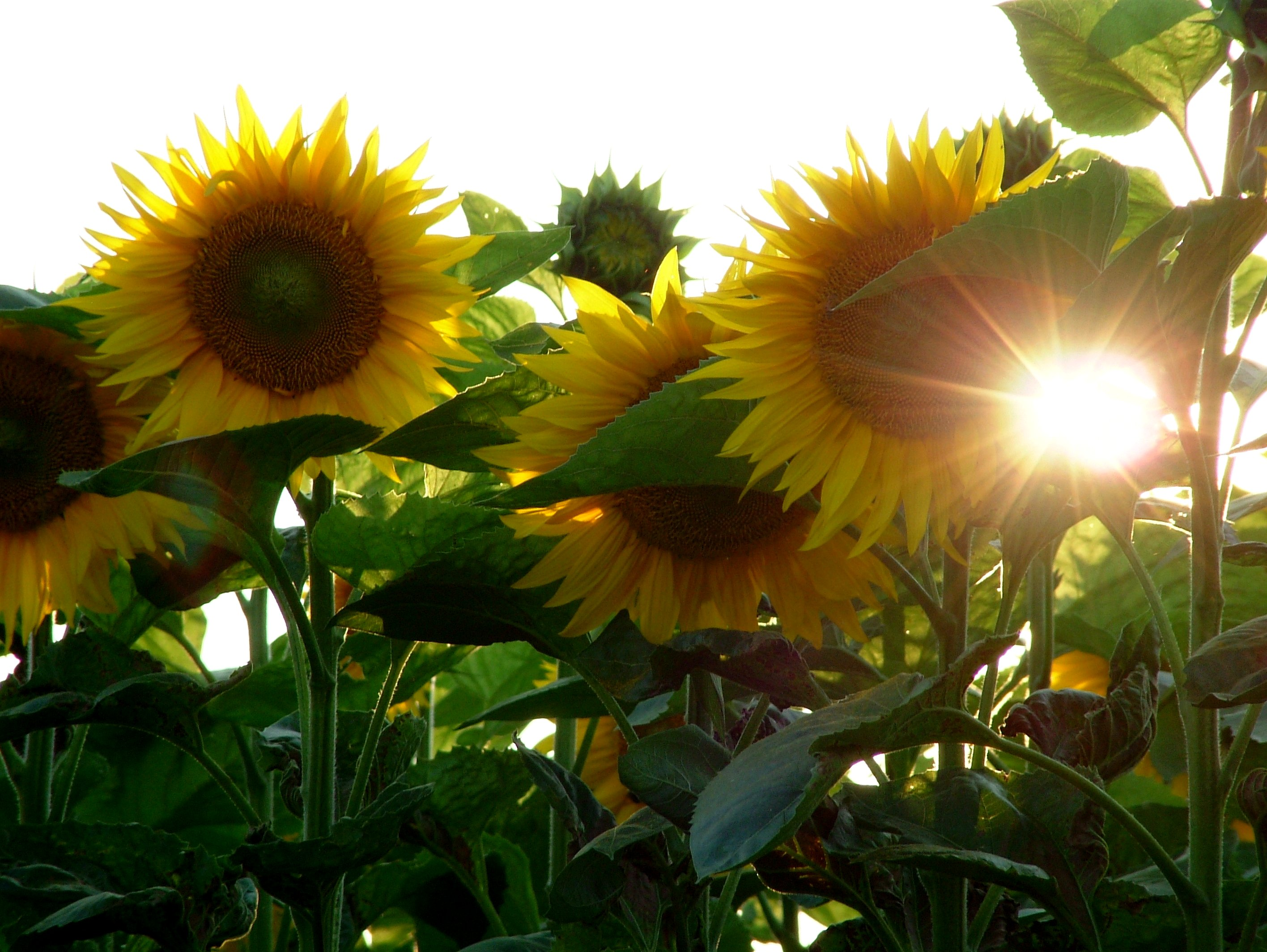 Photograph showing a field of sun flowers and a sun spot. The picture was taken in Austria in Summer 2005 using the Fujifilm Finepix S20Pro.